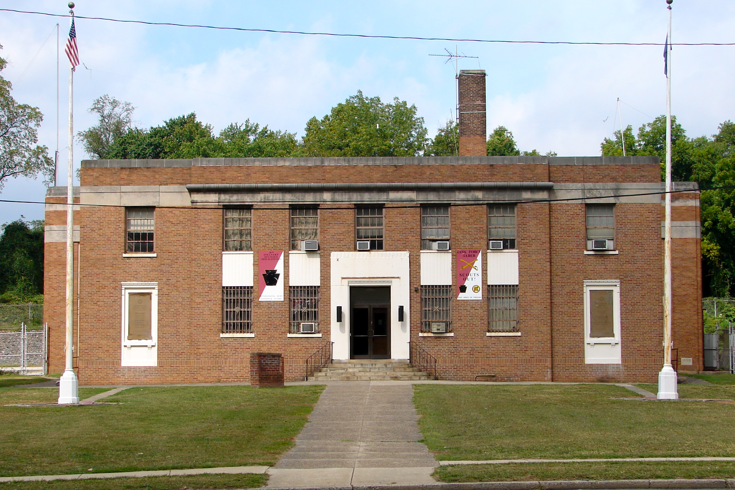 Special Troops Armory in Philadelphia on the NRHP since November 14, 1991. At 5350 Ogontz Ave. in the Ogontz neighborhood of North Philly. In a park-like area - the only building on the block - not really sure why this building qualifies as a NRHP - but it's not the architecture!